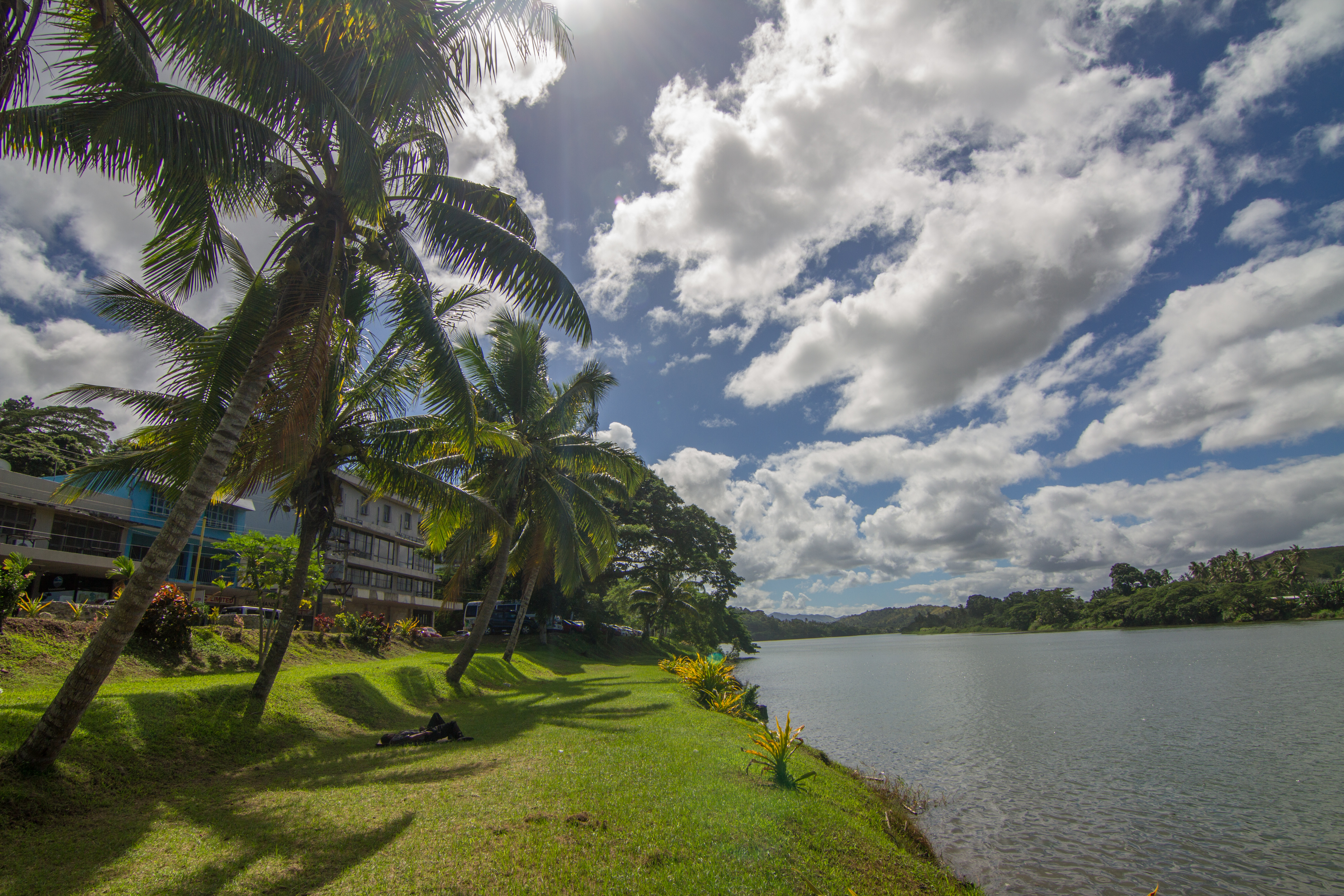 Sigatoka, Fiji